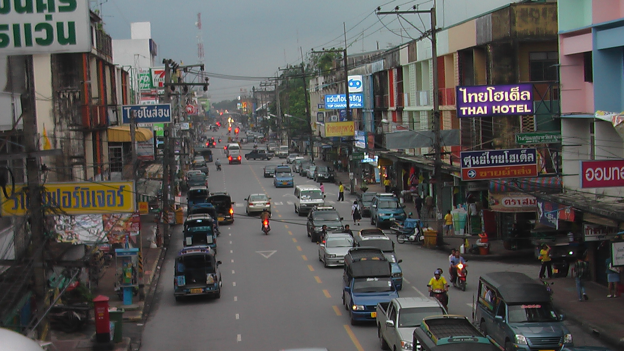 Busy Thai street in downtown Nakhon Si Thammarat, January 2007